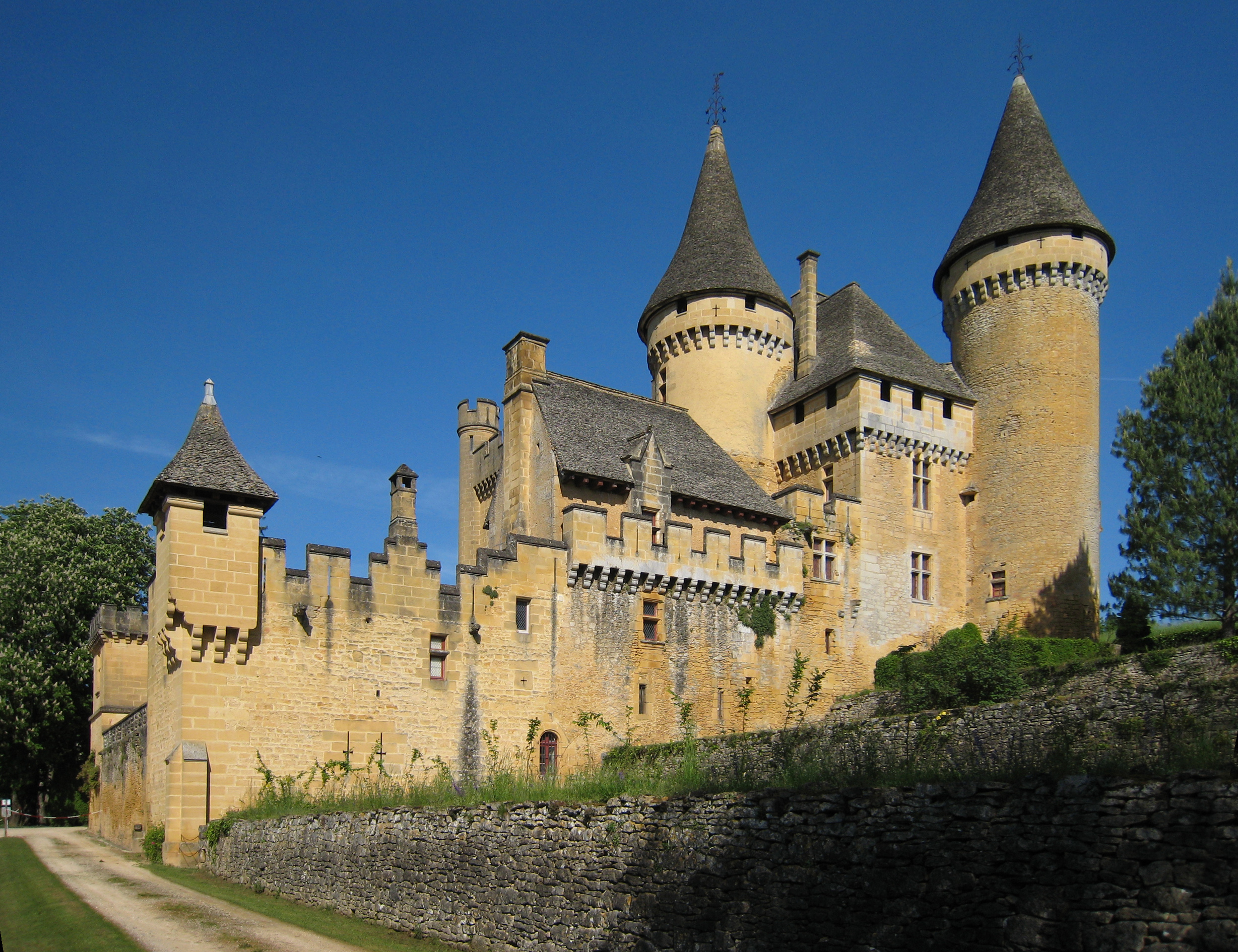 Chateau de Puymartin near the village of Sarlat, Département Dordogne/France